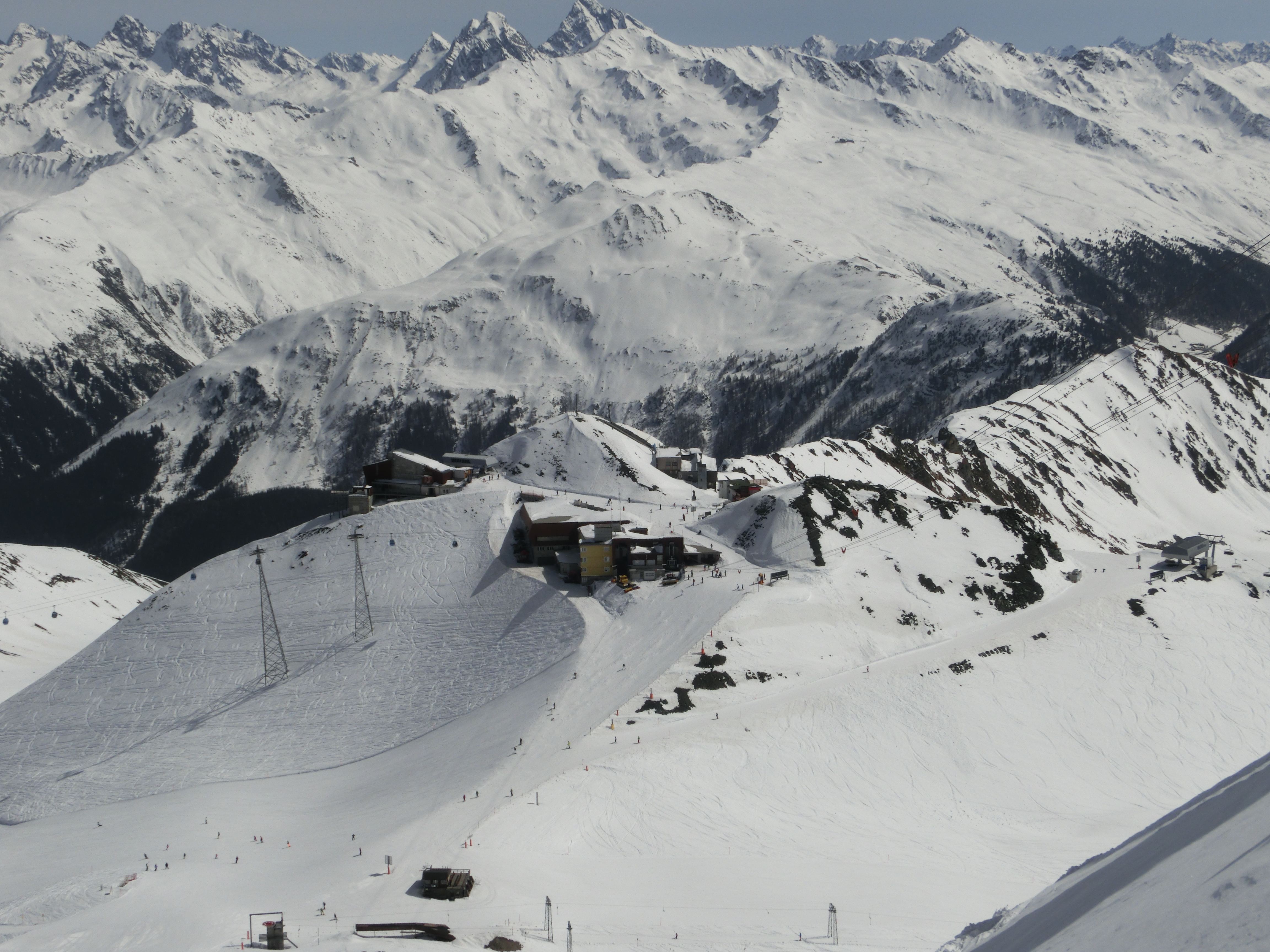 Weissfluhjoch, as seen from Weissfluh, Davos, Arosa, Koster-Serneus, Grisons, Switzerland. Rumantsch: Weissfluhjoch, piglia se digl Weissfluh, Tavo, Arosa, Koster-Serneus, Grischun, Svizra.